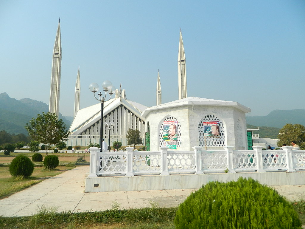 Faisal Mosque This is a photo of a monument in Pakistan identified as the ICT-5